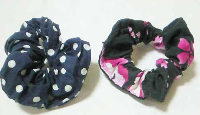 Hair accessory "chouchou" (commonly known as "scrunchies" in English)